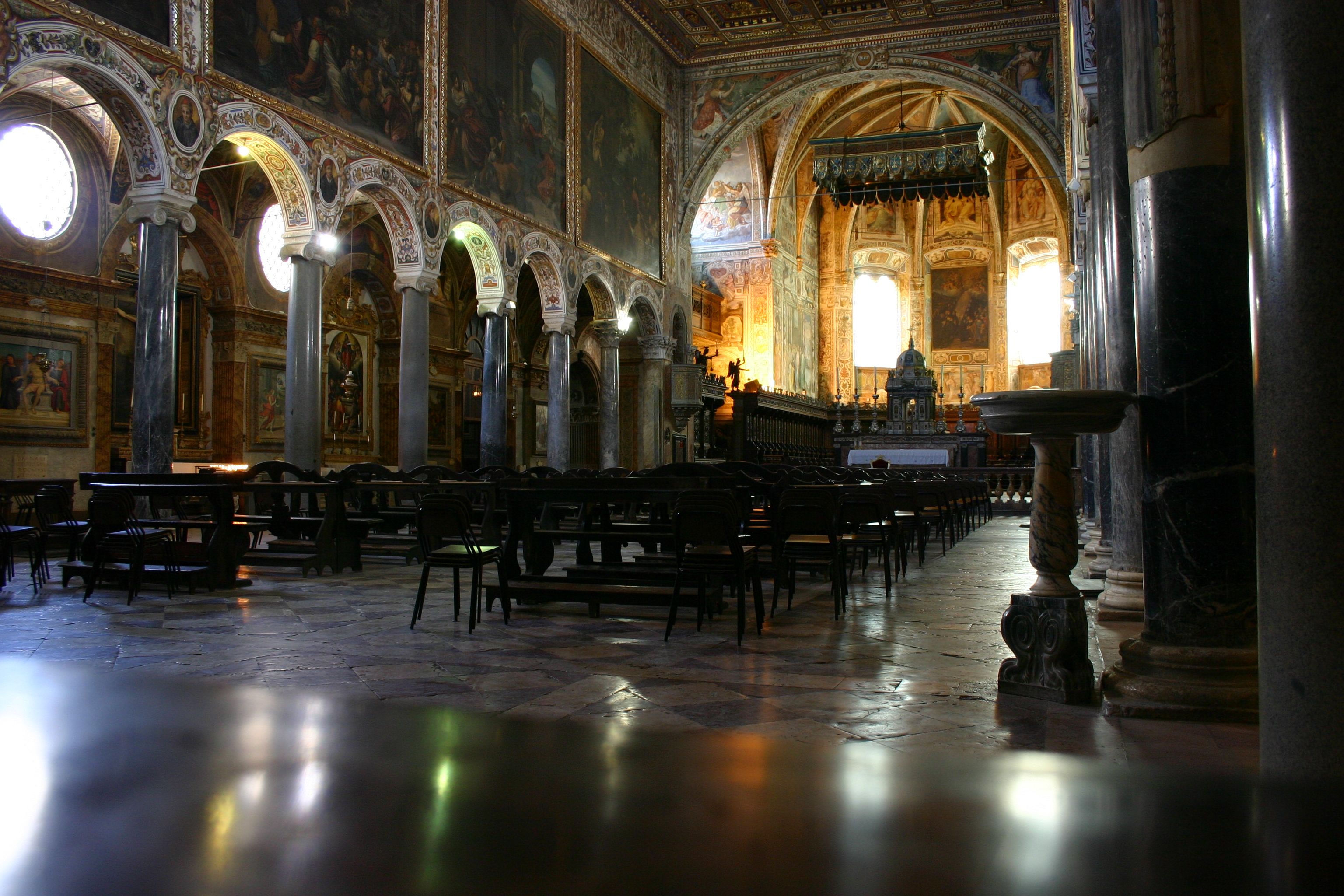 Perugia, Interior of the San Pietro church. Picture by Giovanni Dall'Orto, August 7, 2006.